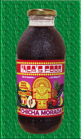 Purple corn, powerful antioxidant drink